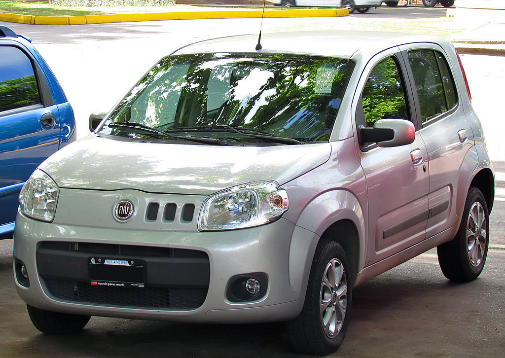 2011 Fiat Uno 1.4 Attractive in Argentina